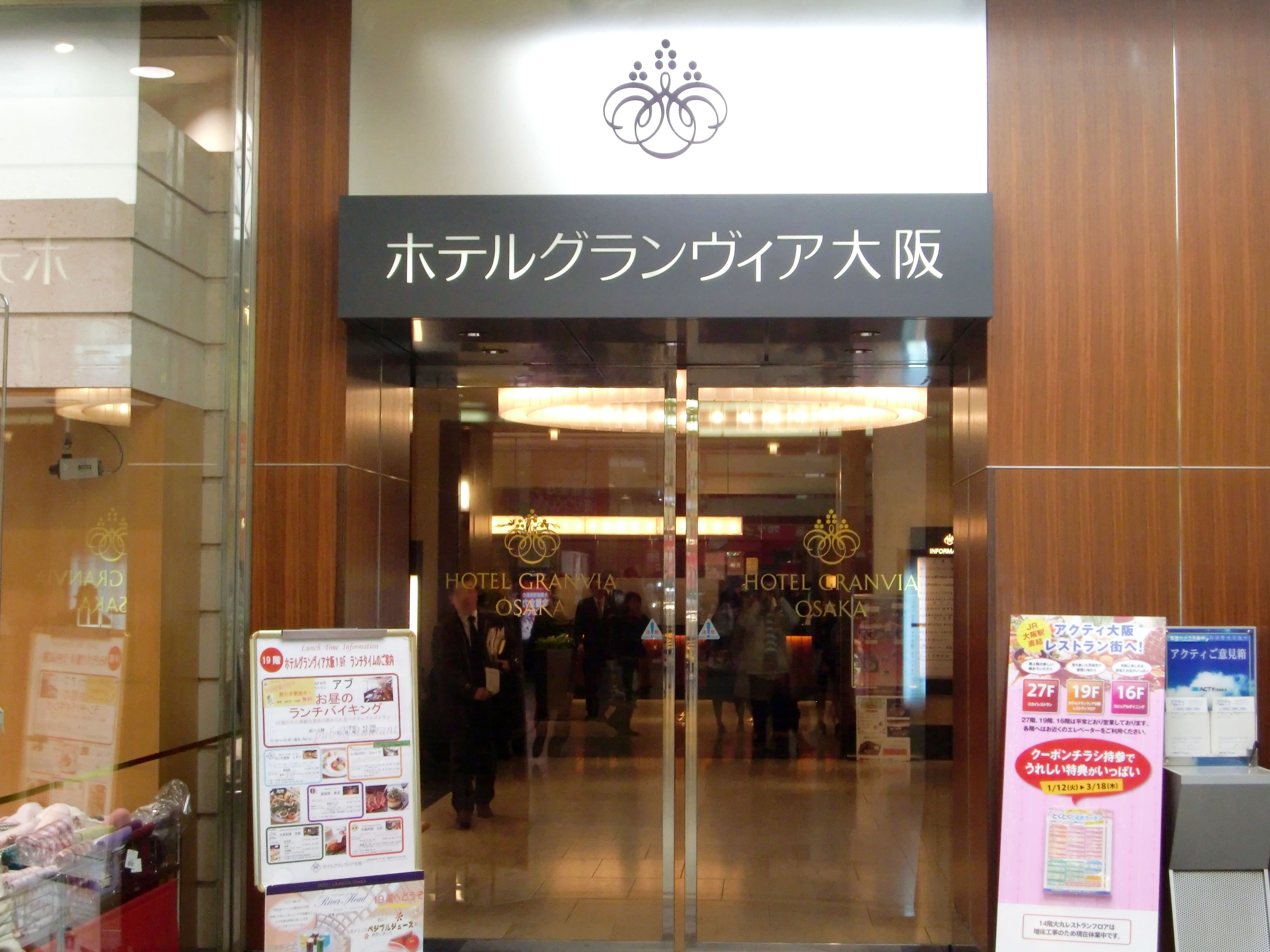 HOTEL GRANVIA OSAKA,3-1-1 Umeda Kita-ku Osaka-City OSAKA JAPAN.